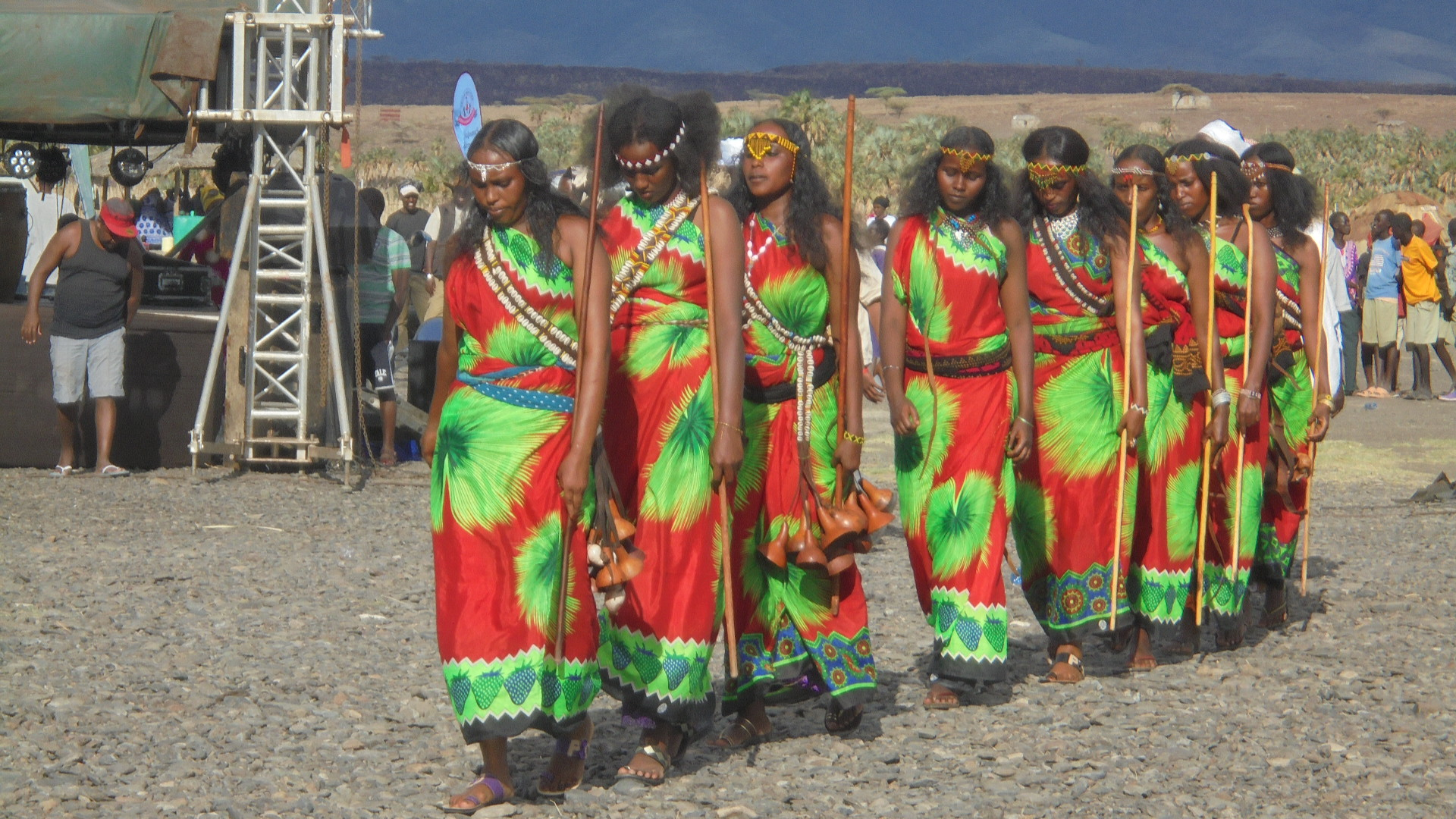 Burji a minority ethnic community girls doing a catwalk during a cultural festival in Loiynagalani, Marsabit County in Kenya in 2017. This is an image of "African people at work" from Kenya